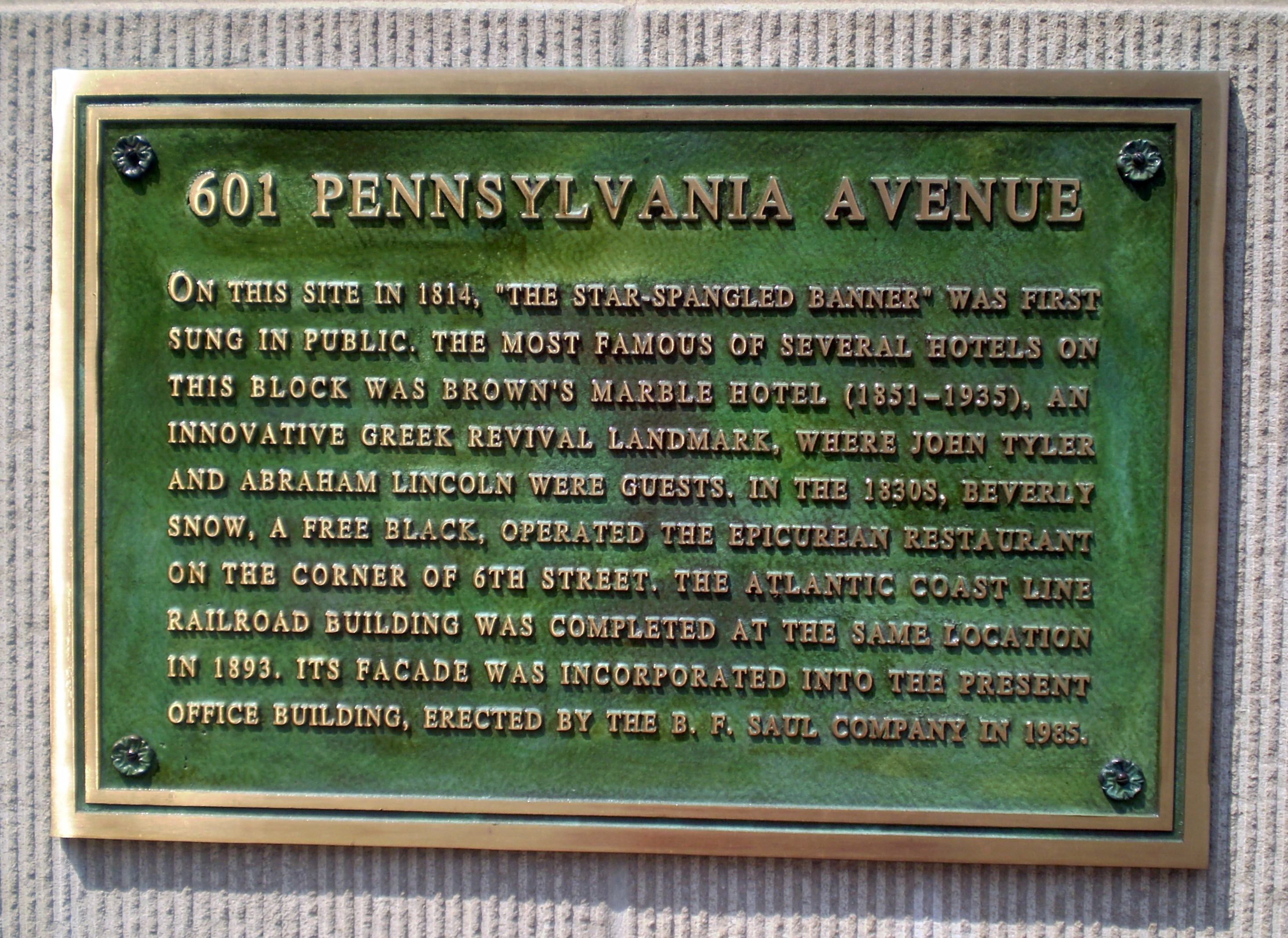 Commemorative plaque in Washington, D.C. marking the site where Francis Scott Key's "The Star-Spangled Banner," which later became the national anthem of the United States, was first publicly sung. The plaque reads: "On this site in 1814, 'The Star-Spangled Banner' was first sung in public. The most famous of several hotels on this block was Brown's Marble Hotel (1851-1935), an innovative Greek Revival landmark, where John Tyler and Abraham Lincoln were guests. In the 1830s, Beverly Snow, a free black, operated the Epicurean Restaurant on the corner of 6th Street. The Atlantic Coast Line Railroad building was completed at the same location in 1893. Its facade was incorporated into the present office building, erected by the B. F. Saul Company in 1985."